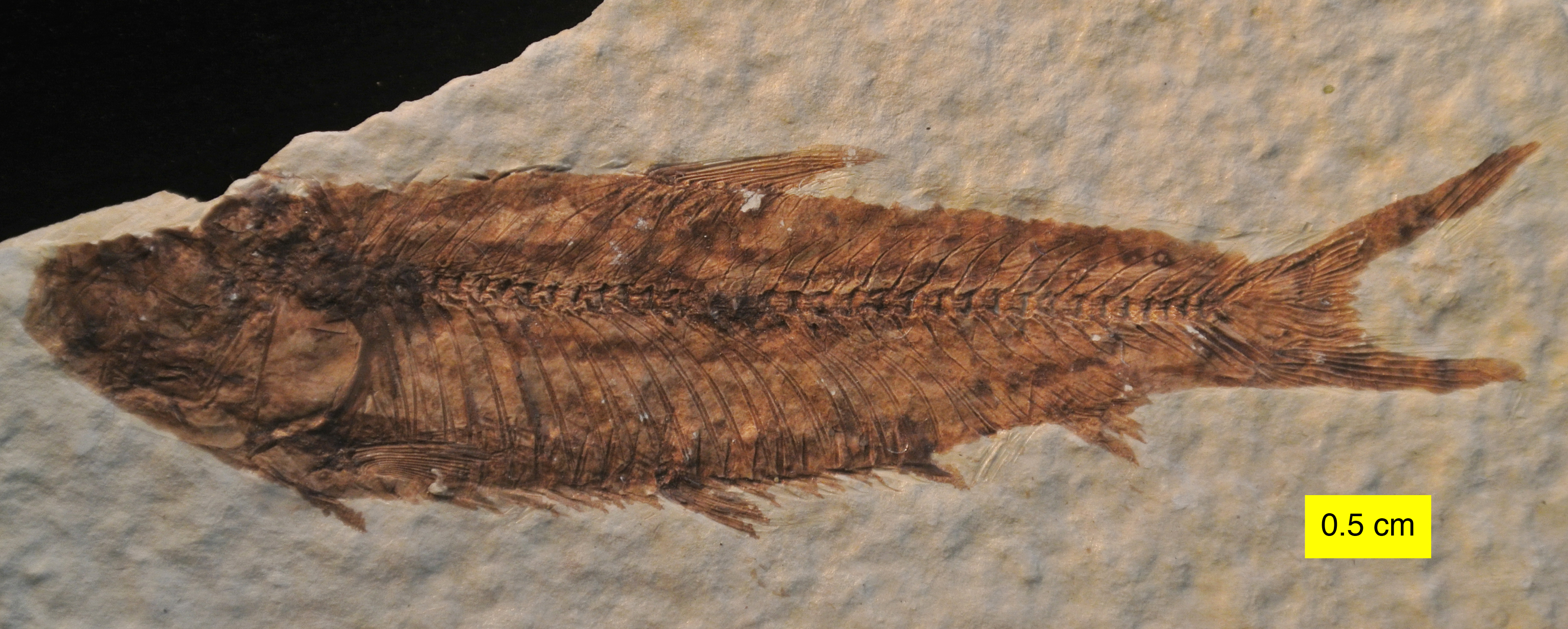 Knightia eocaena from the Green River Formation (Eocene) of Wyoming.